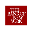 Source=